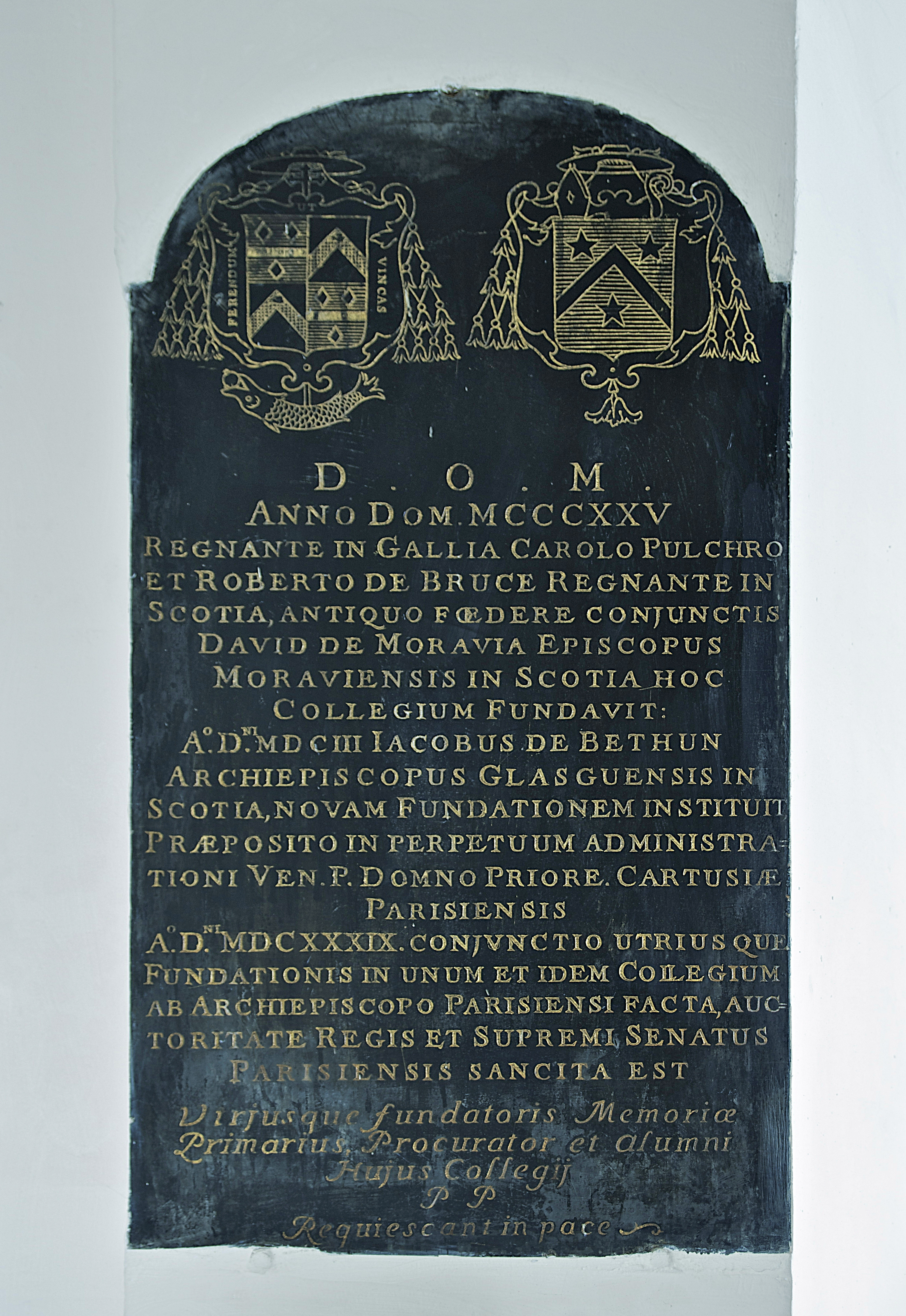 In the chapel of the Scots College in Paris, a plaque relating the history of the institution. Referencing Charles the Fair of France, Robert the Bruce of Scotland,David de Moravia bishop of Moray (†1326, CoA at right of the plaque), and James Beaton, archbishop of Glasgow, (1517-1603, CoA at left of the plaque)